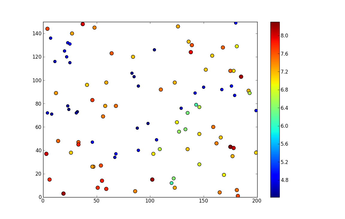 Example of sparse data with colorbar.